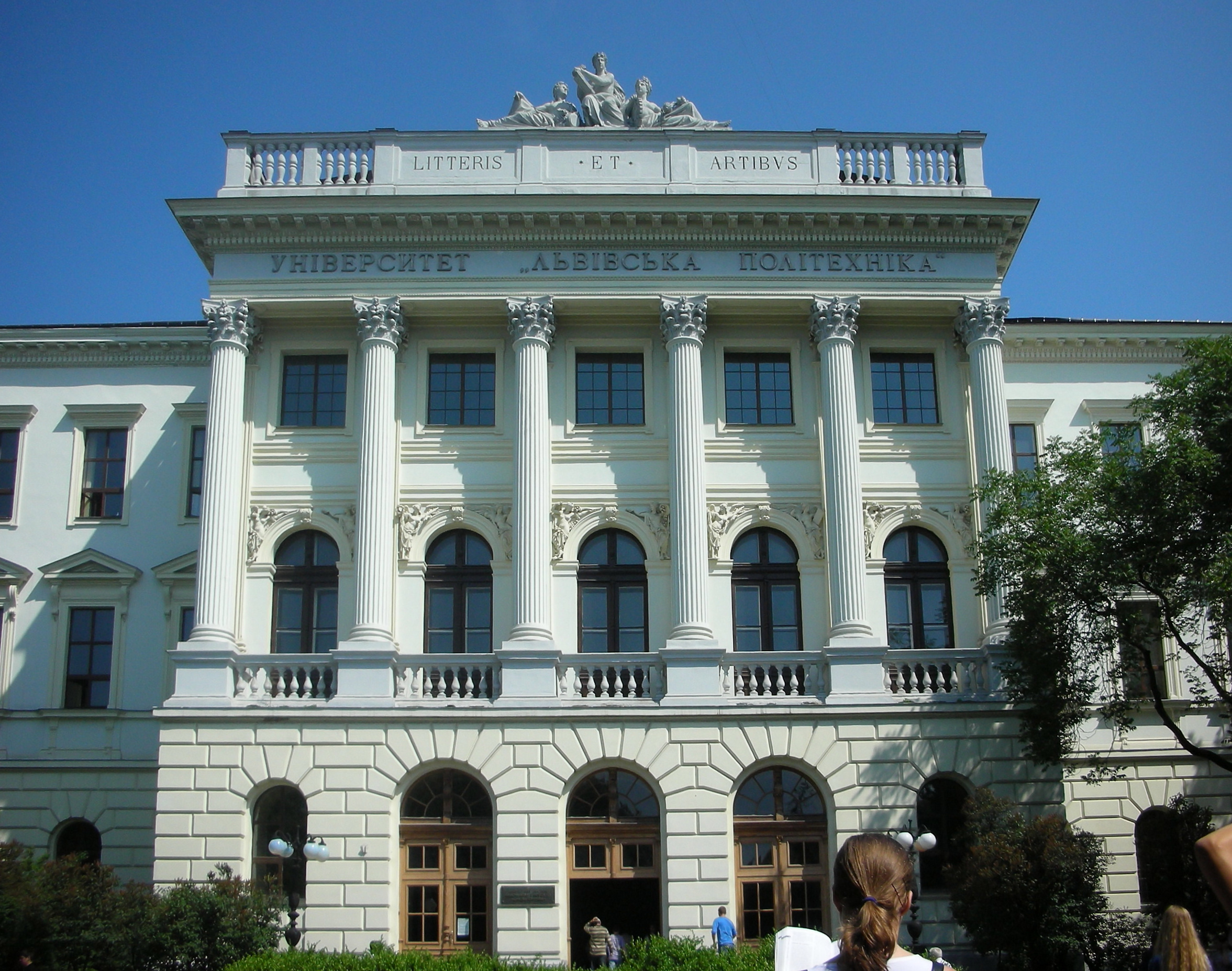 Lviv Polytechnic National University in Lviv (Ukraine).